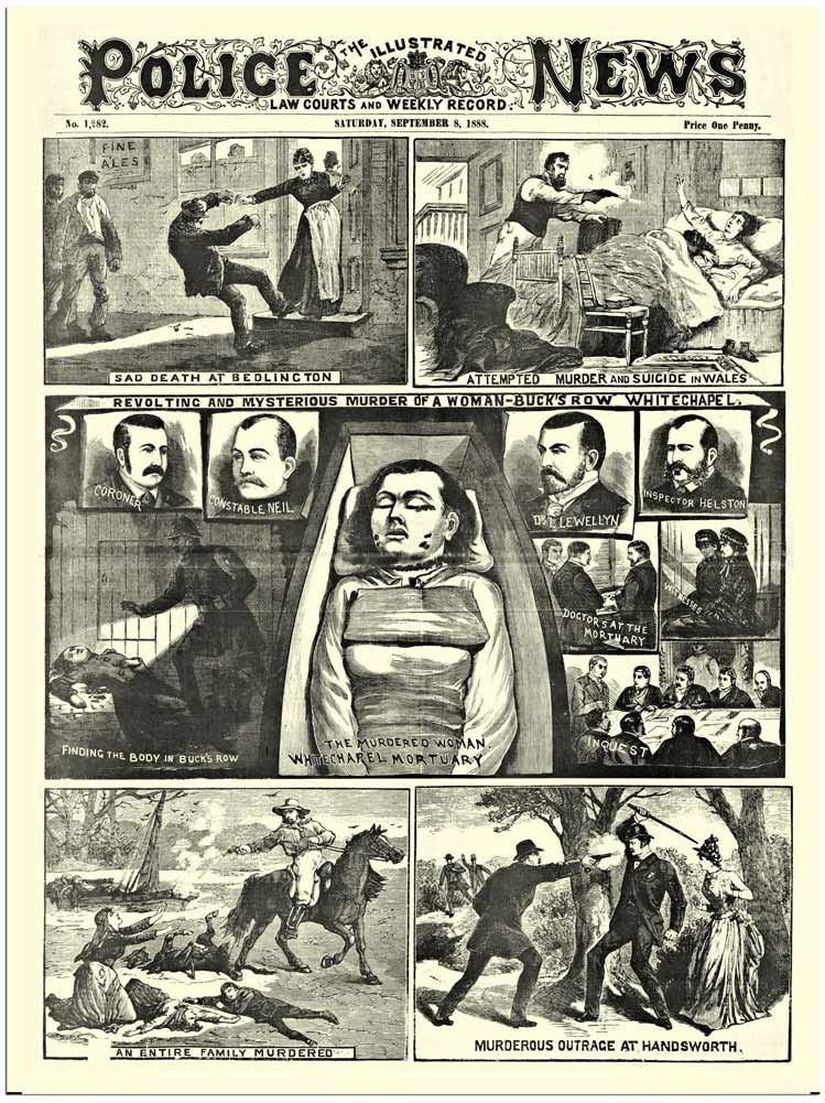 The Illustrated Police News - 8 September 1888 - Jack the Ripper